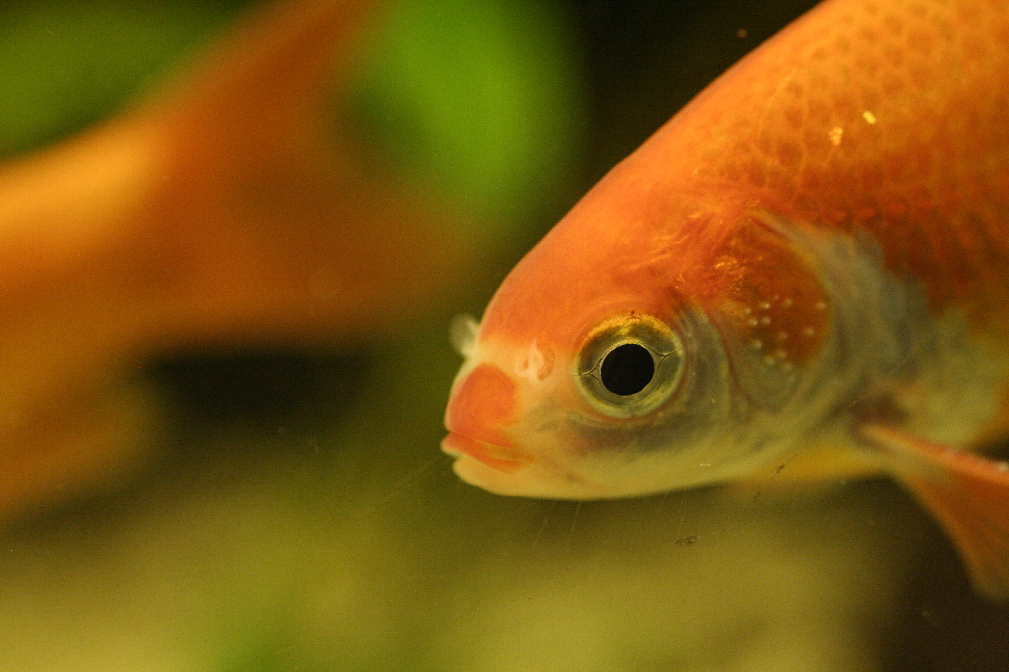 Goldfish with white spots on gill covers